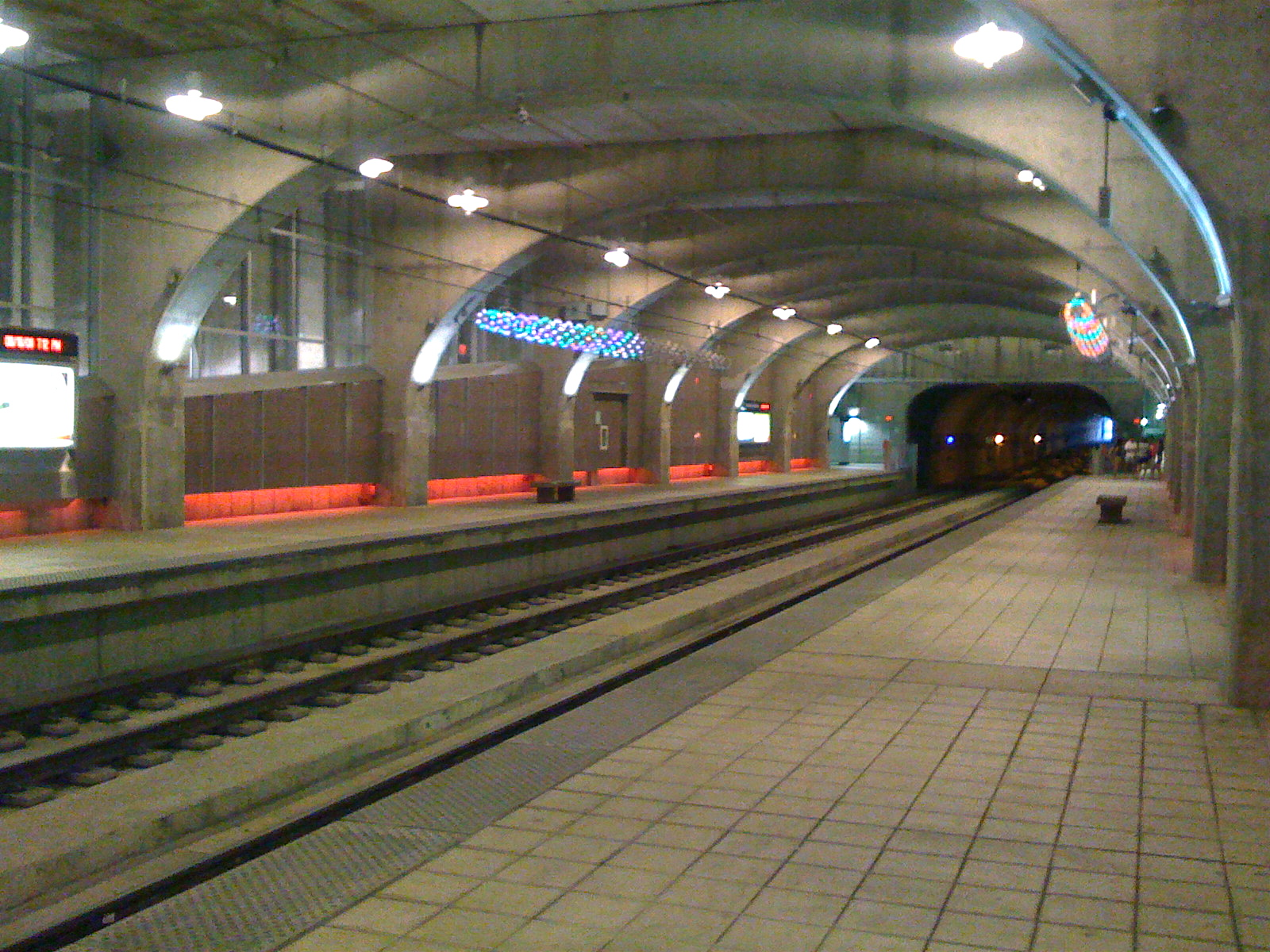 University City-Big Bend MetroLink station